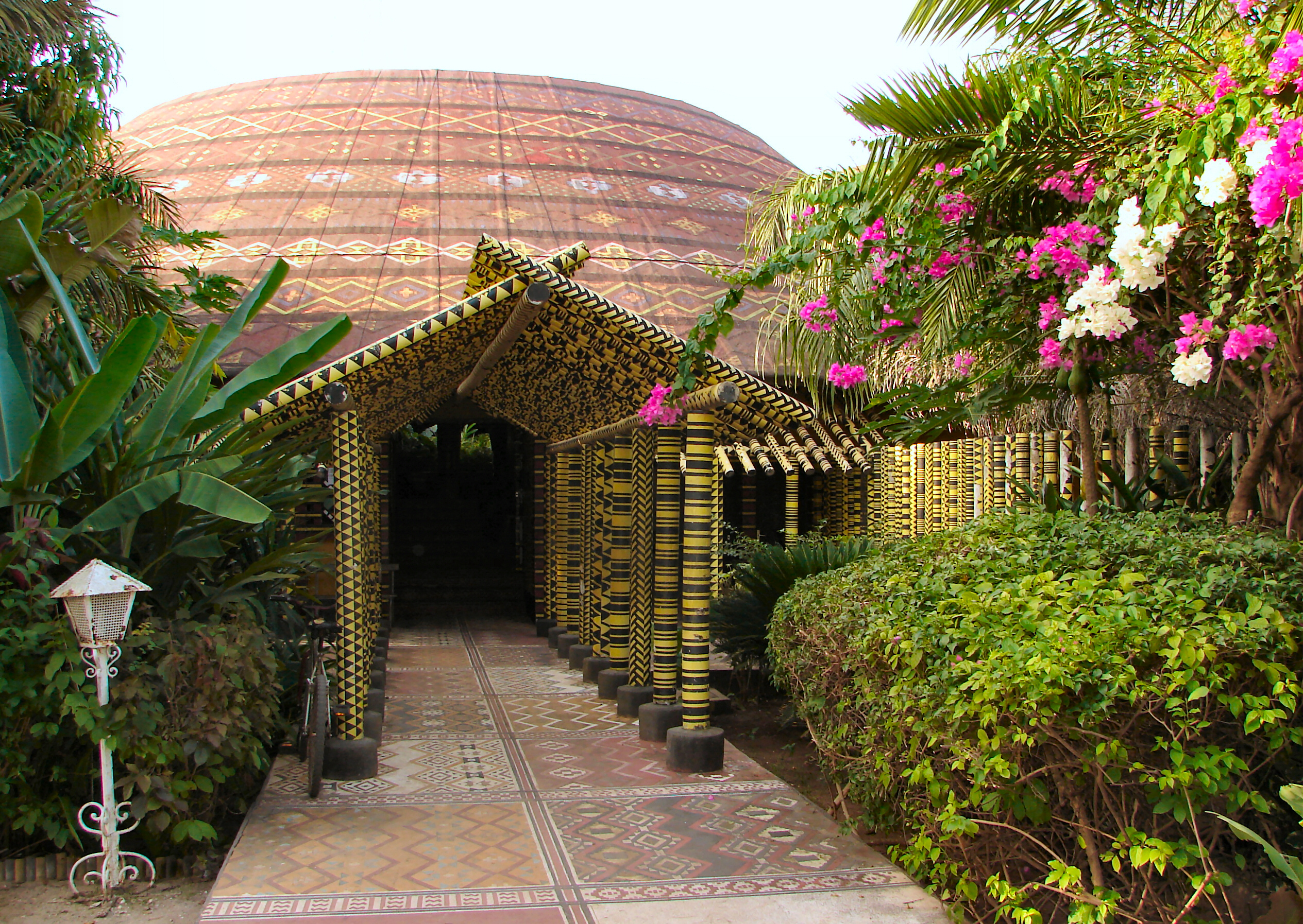 The entrance to the 'case à impluvium' of the Alliance Franco-Sénégalaise in Ziguinchor, Casamance, Senegal.